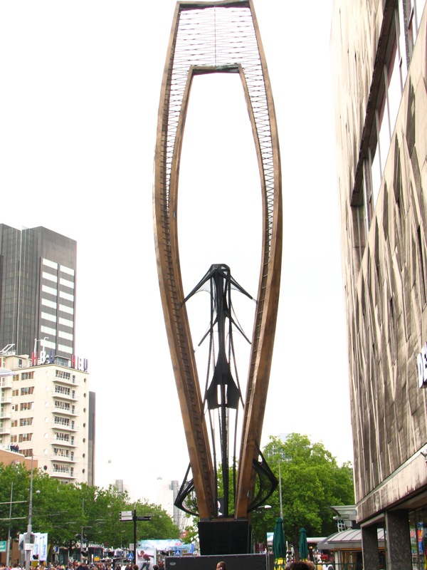 Sculpture by Naum Gabo in Rotterdam/The Netherlands